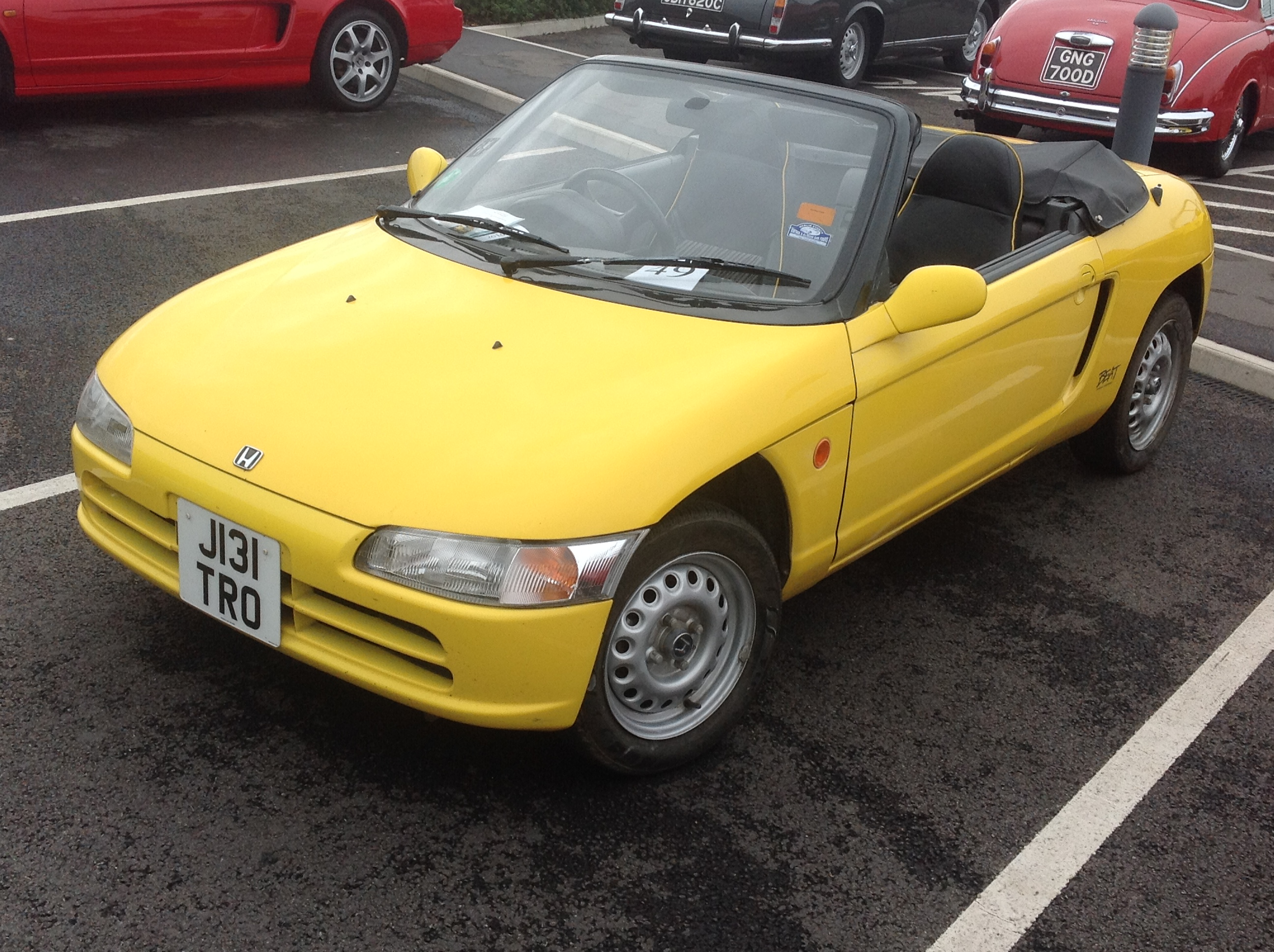 Rare Breeds, Haynes Motor Museum, Sparkford, Somerset